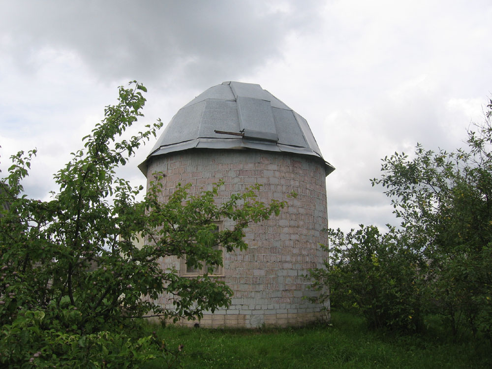 Vitebsk amateur astronomical observatory (MPC COD B42, Belarus)